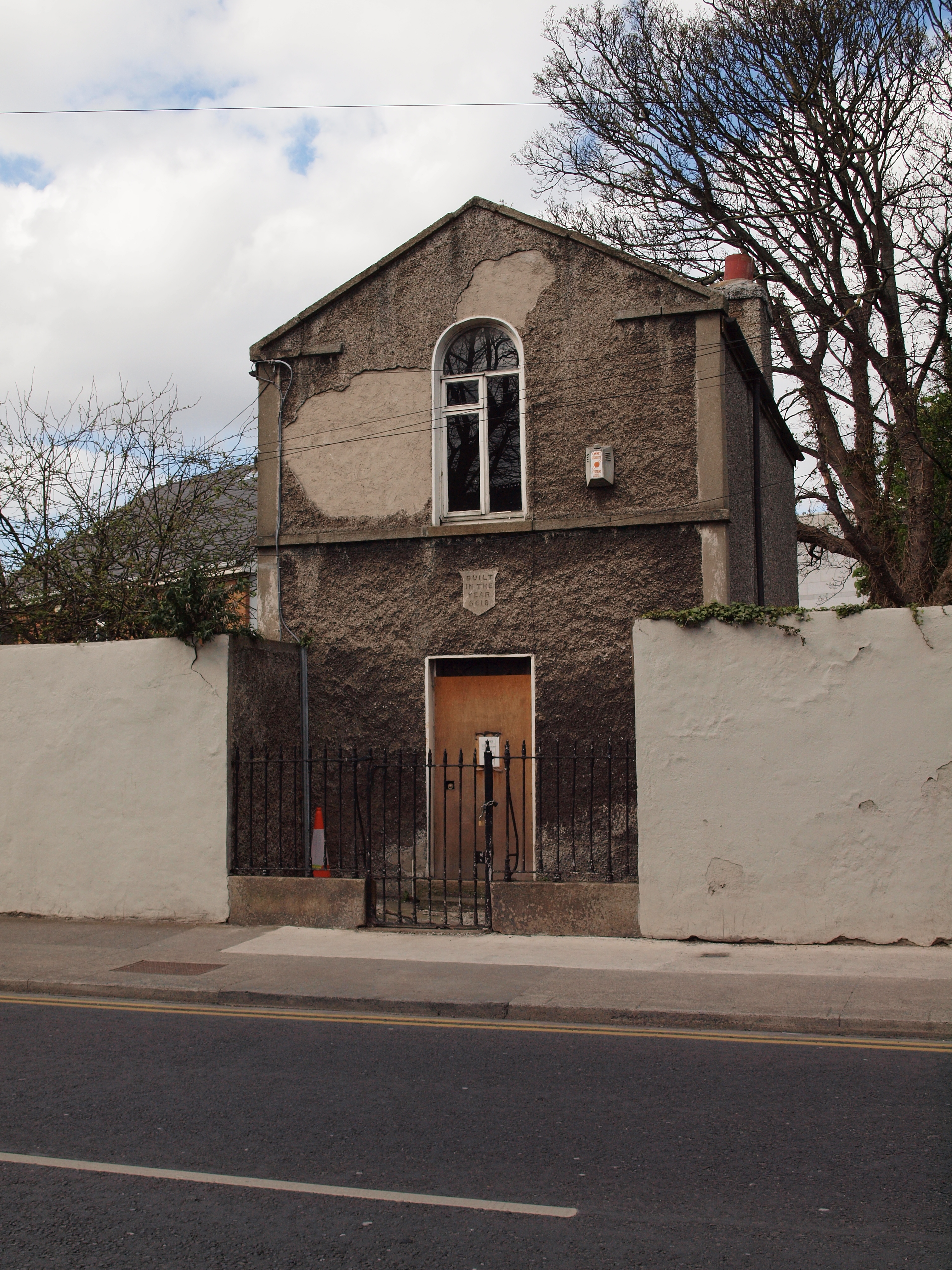 Photograph of Ballybough Cemetery gate lodge April 2020, from the street